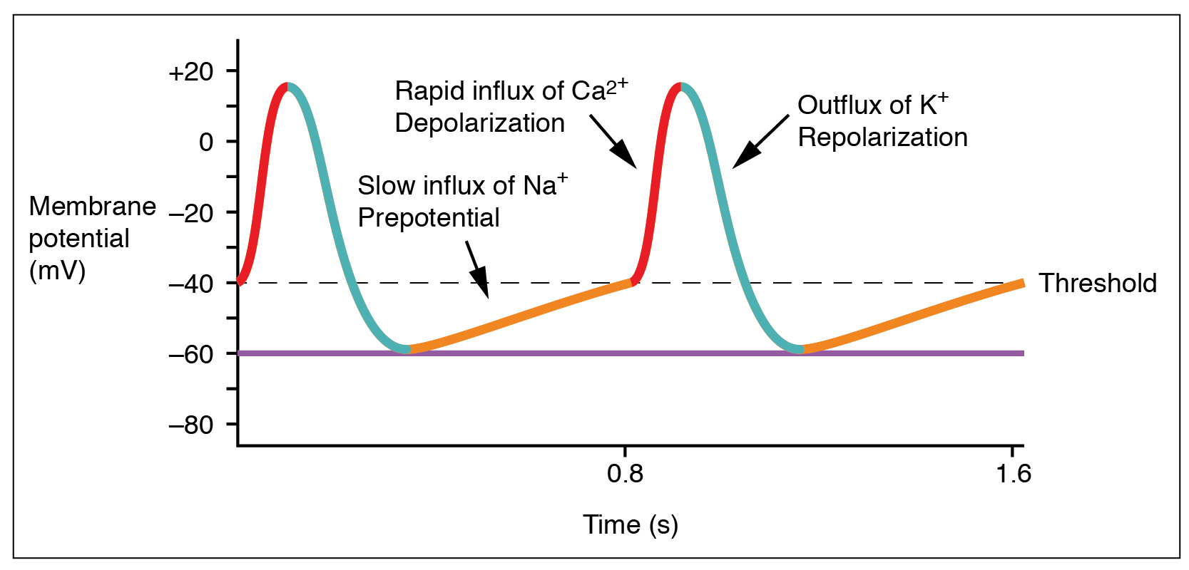 Illustration from Anatomy & Physiology, Connexions Web site. Jun 19, 2013.